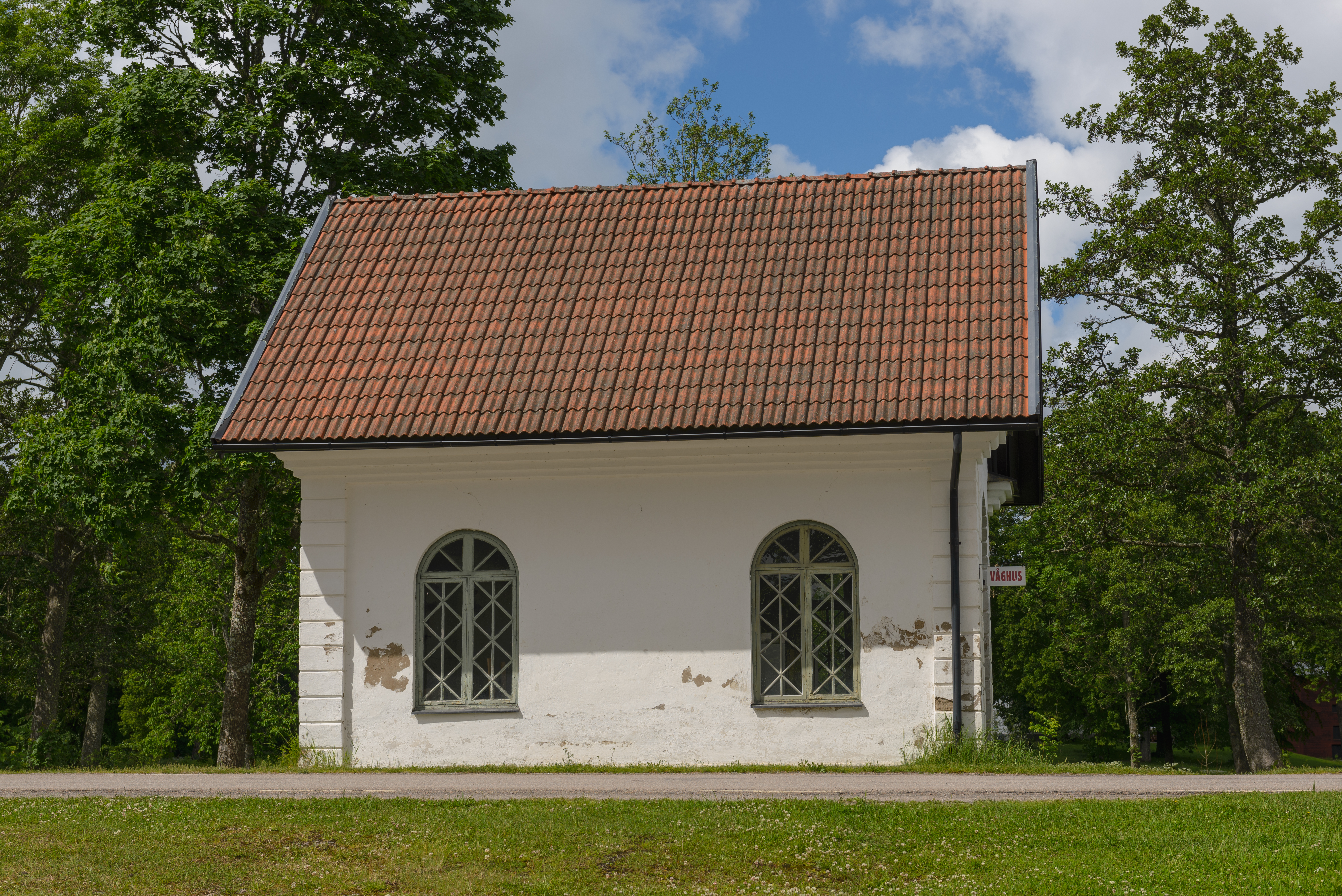 Weigh house (Våghus) at Strömsberg, a old mill and village in Tierp Municipality, Sweden.